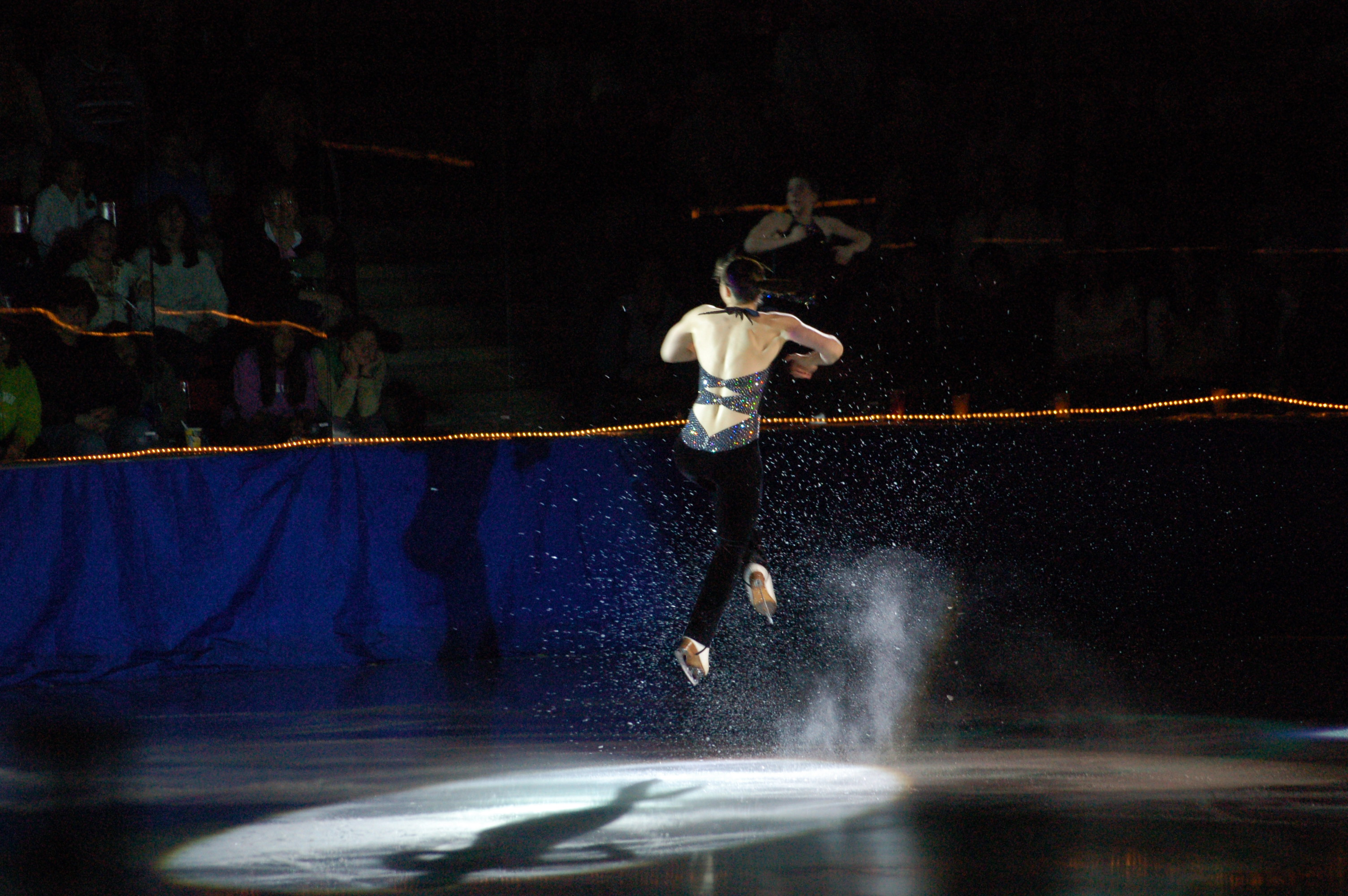 Sarah Hughes at the 35th annual "An Evening with Champions", mid-jump